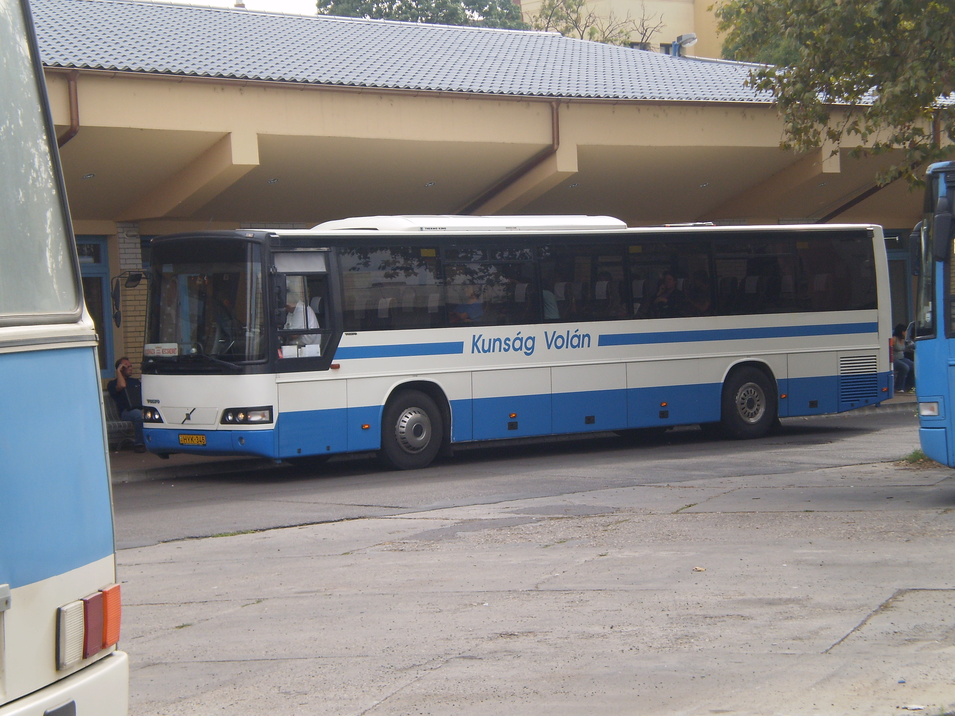 Kunság Volán Volvo bus in Szentes, Hungary.